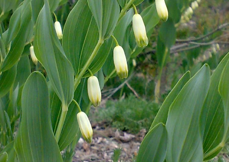 Polygonatum odoratum Kantkonvall